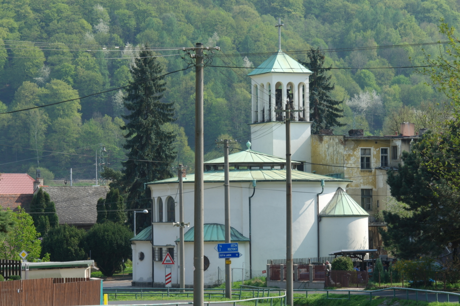 Church of the Visitation of the Virgin Mary, Povrly, Ústí nad Labem District, Ústí nad Labem Region. Built in 1936 according to the plans of architects Josef Reihsig and Paul Krisch. View from the north.